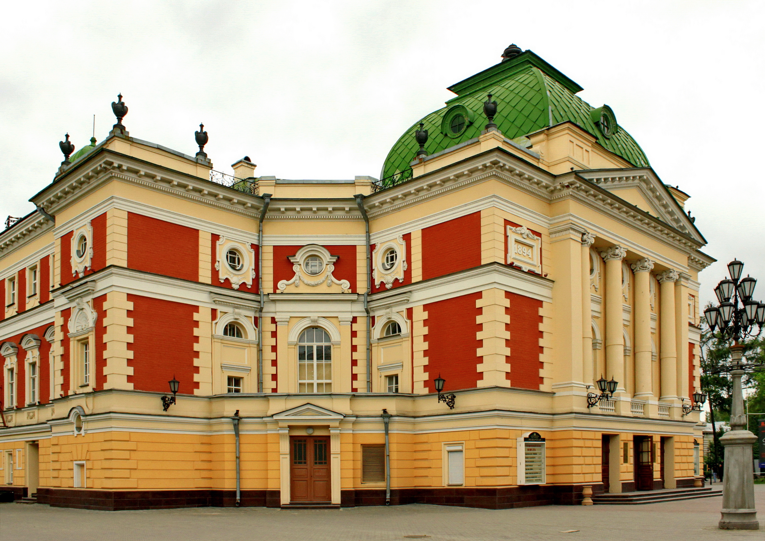 Okhlopkhov's Irkutsk Drama Theatre. Irkutsk, Russia.